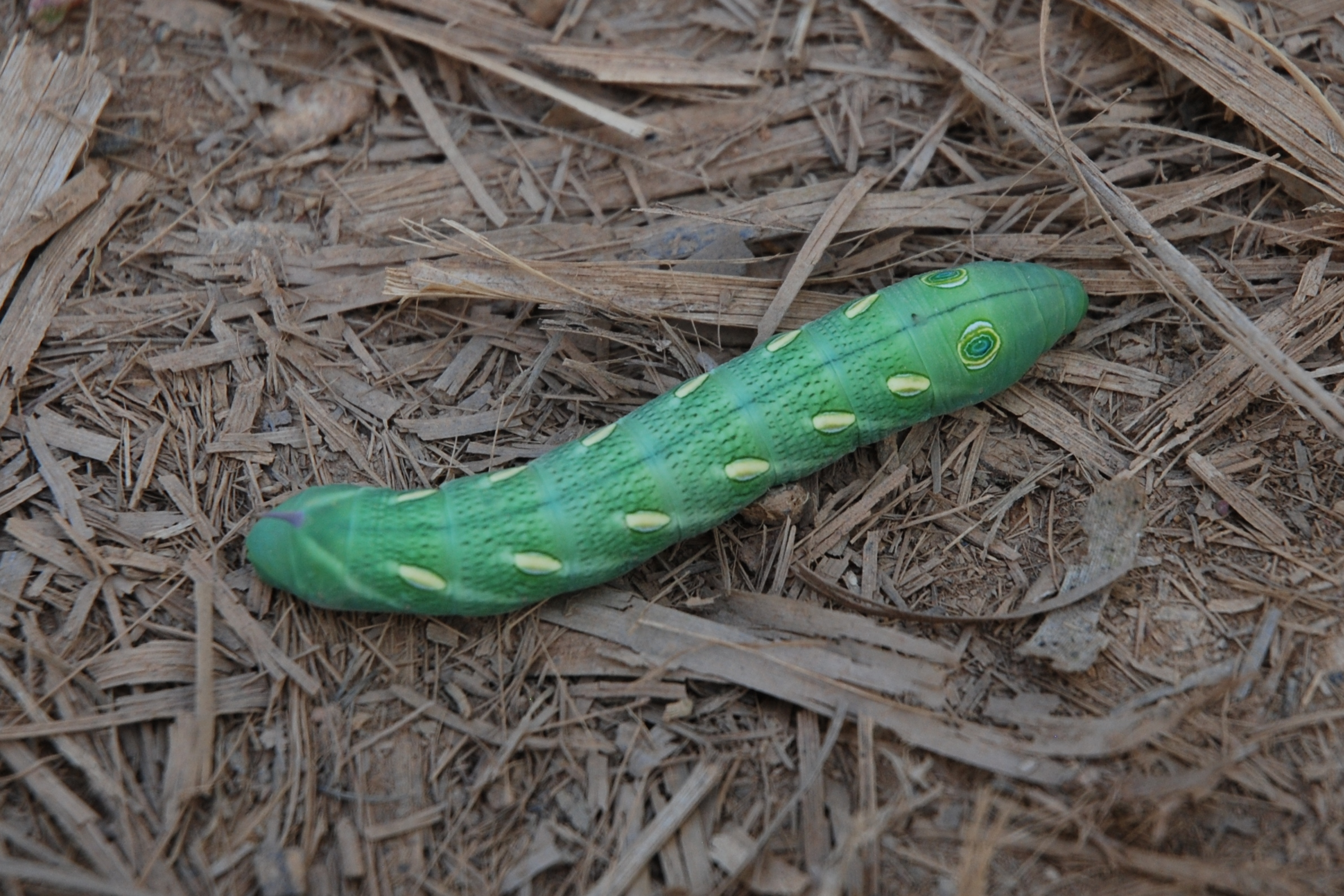 Larva of Theretra pallicosta, Laos